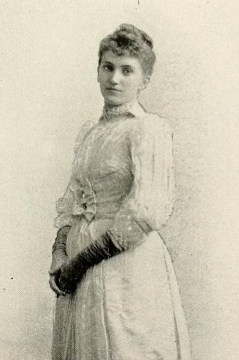 Photographic portrait of American artist and illustrator Maud Humphrey (1868-1940). From American Women: Fifteen Hundred Biographies with Over 1,400 Portraits, Frances E. Willard and Mary A. Livermore, editors. Mast, Crowell & Kirkpatrick, 1897 (revised edition from 1893), vol. 1, p. 403. Cropped version.